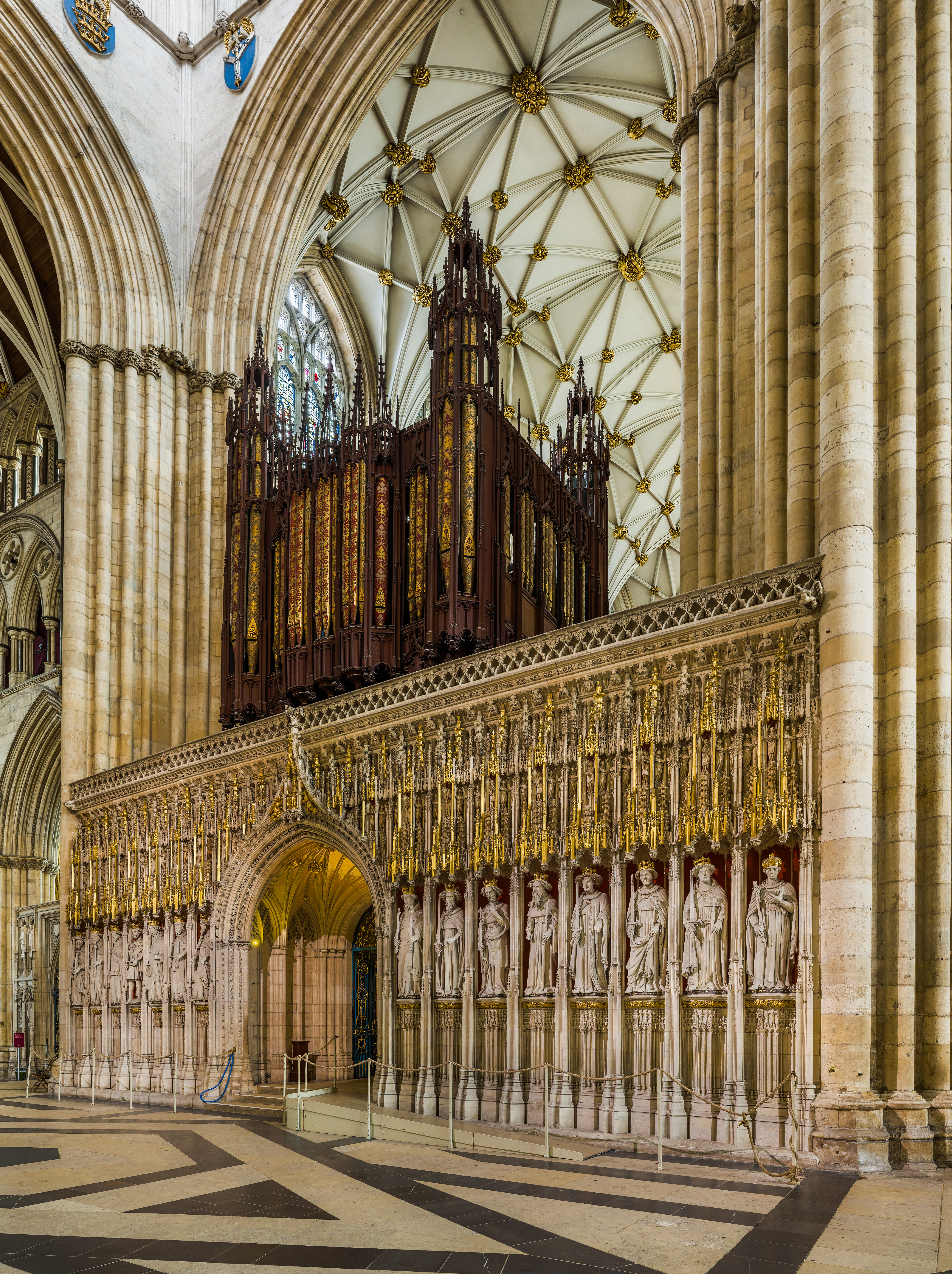 The rood screen and organ of York Minster in North Yorkshire, England.